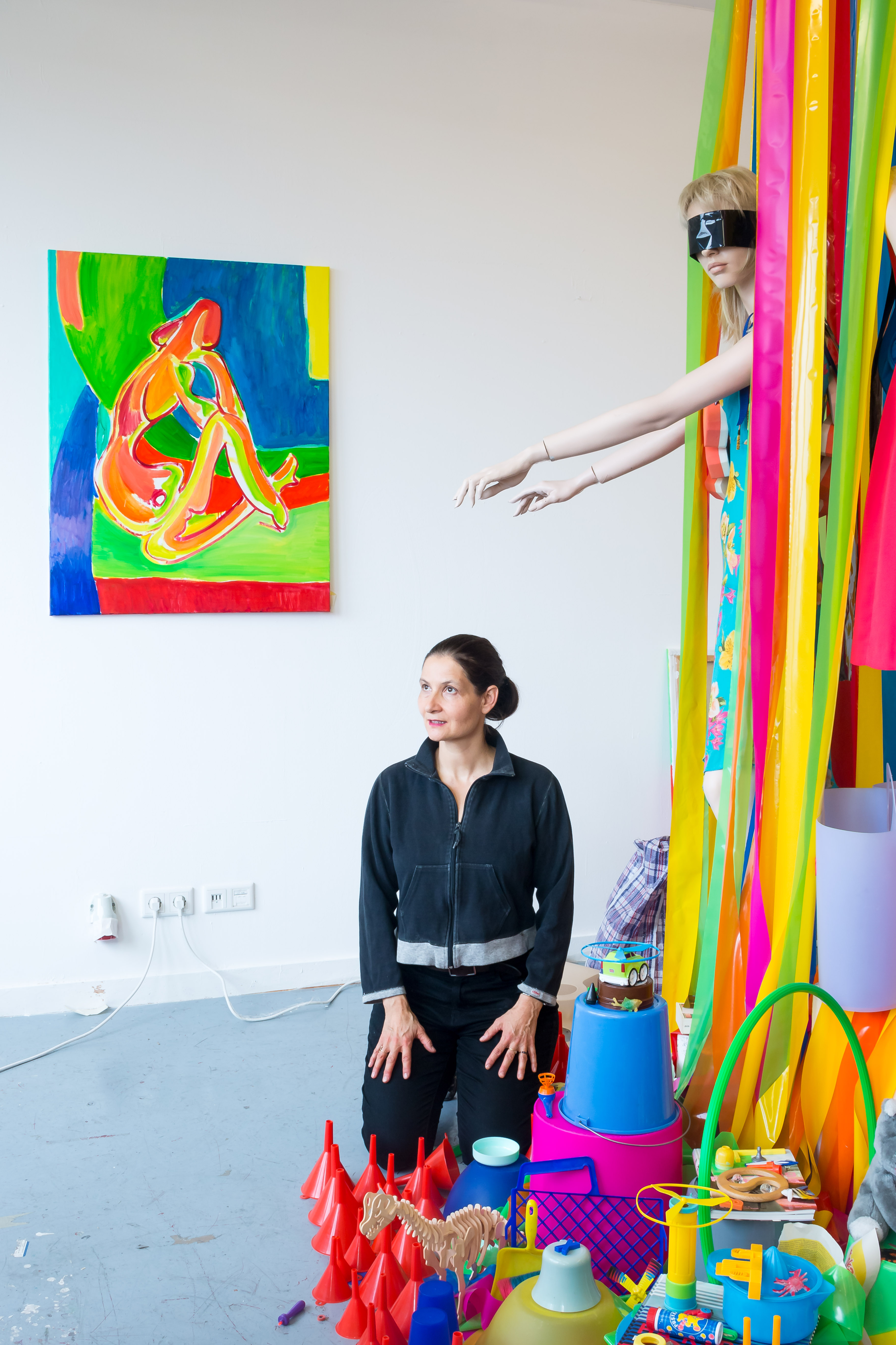 Annegret Bleistreiner in her Installation "Under the Rainbow"